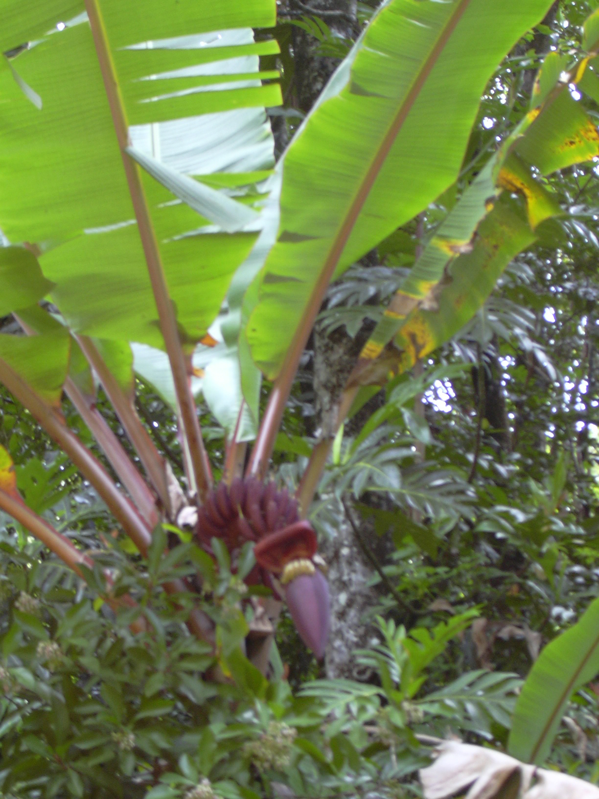 Musa sp. (Cuban red fruit). Location: Maui, Keanae Arboretum